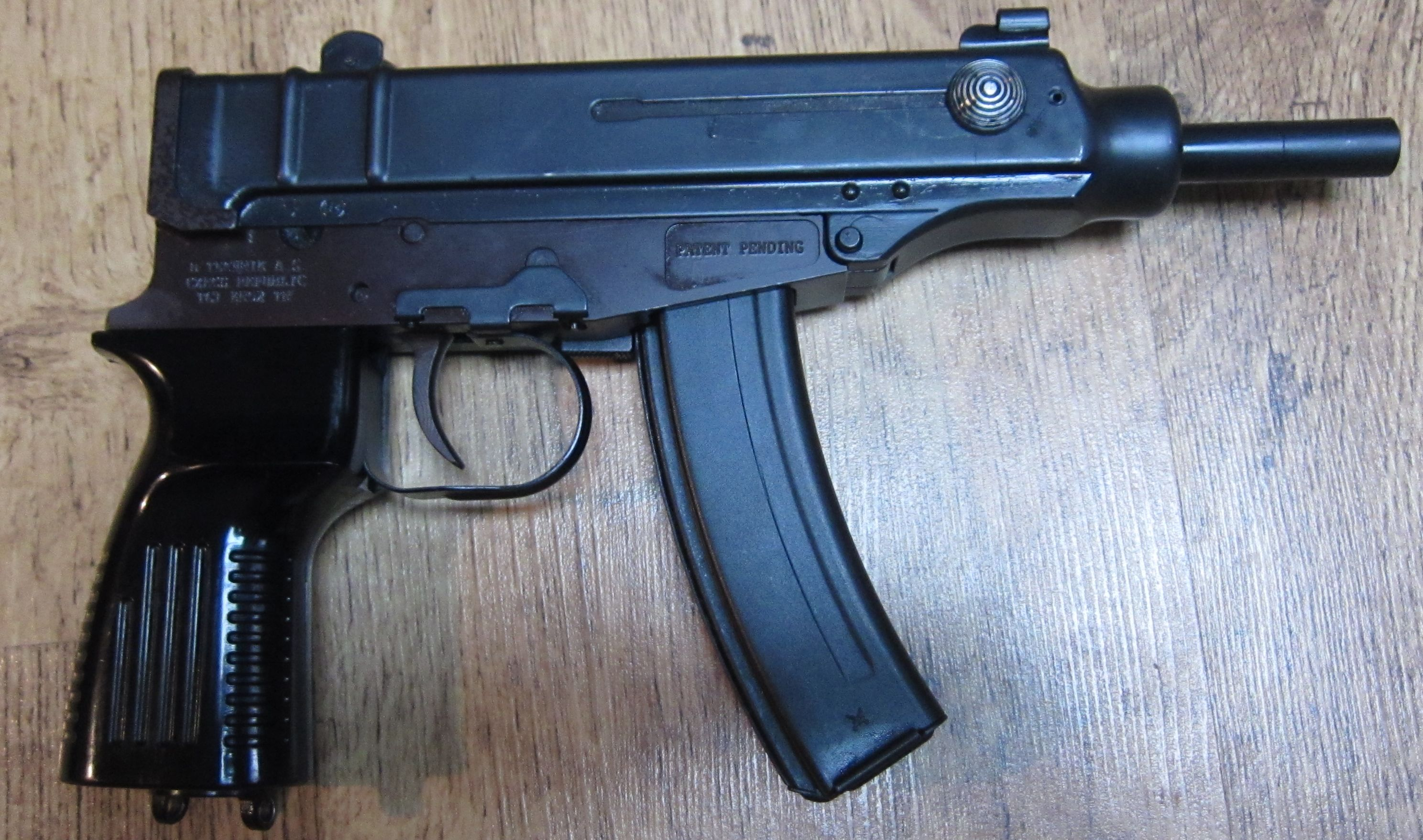 A picture of a semi-automatic only Skorpion.